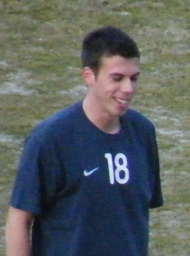 Richárd Frank Hungarian association football player.